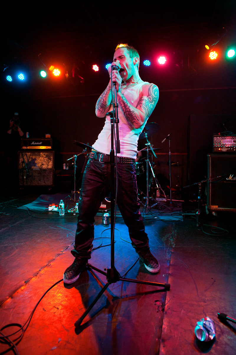 ezra performs with Morning Glory at the Knitting Factory in 2010, Brooklyn, NY Photo: Konstantine Sergiev